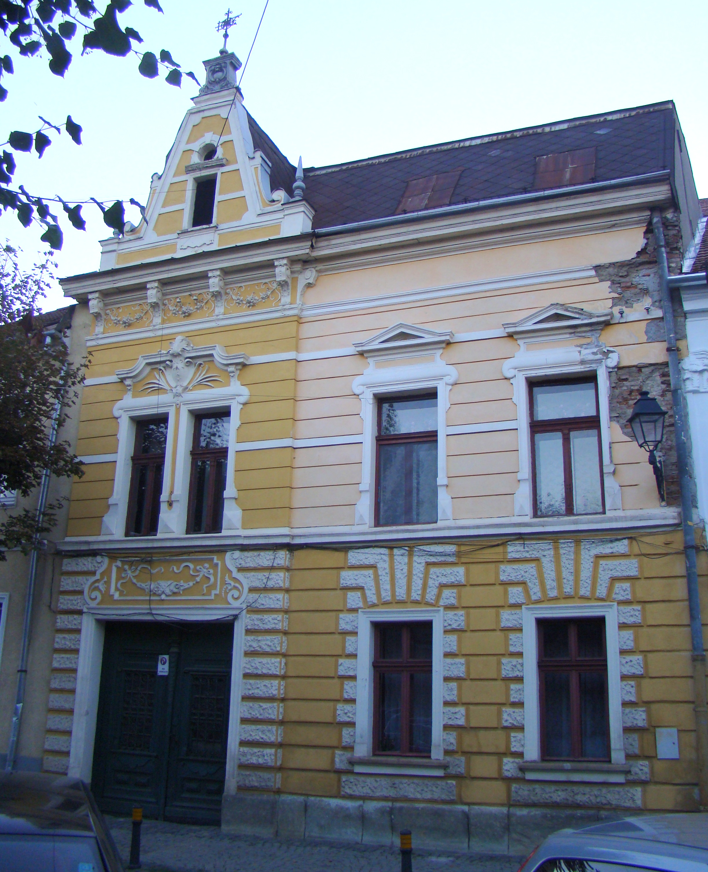 House, historic monument, in Bistrița, Nicolae Titulescu street 48